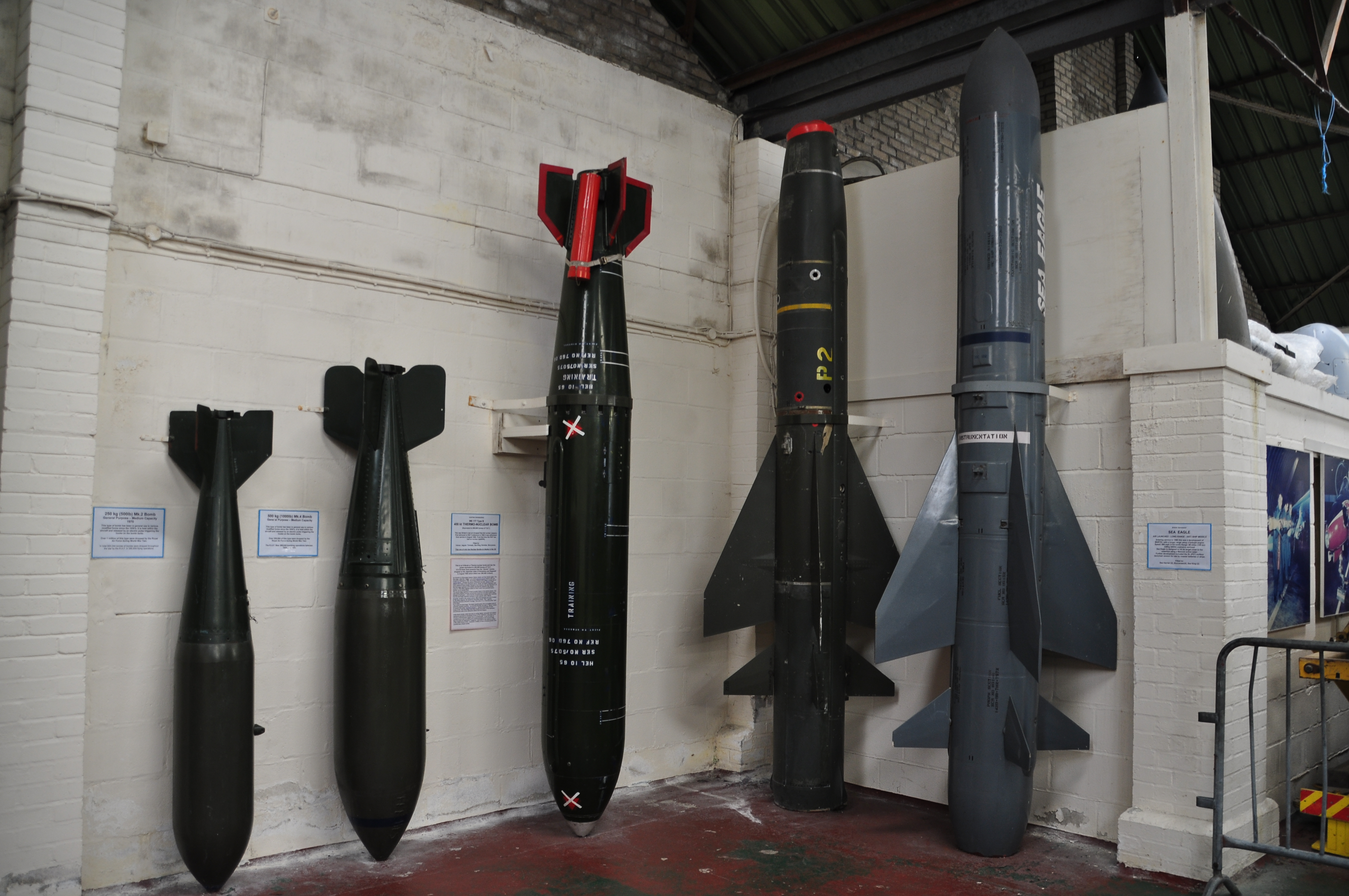 Yorkshire Air Museum